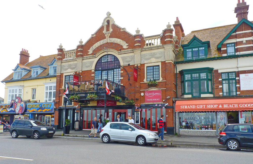 Queens Hall, Minehead